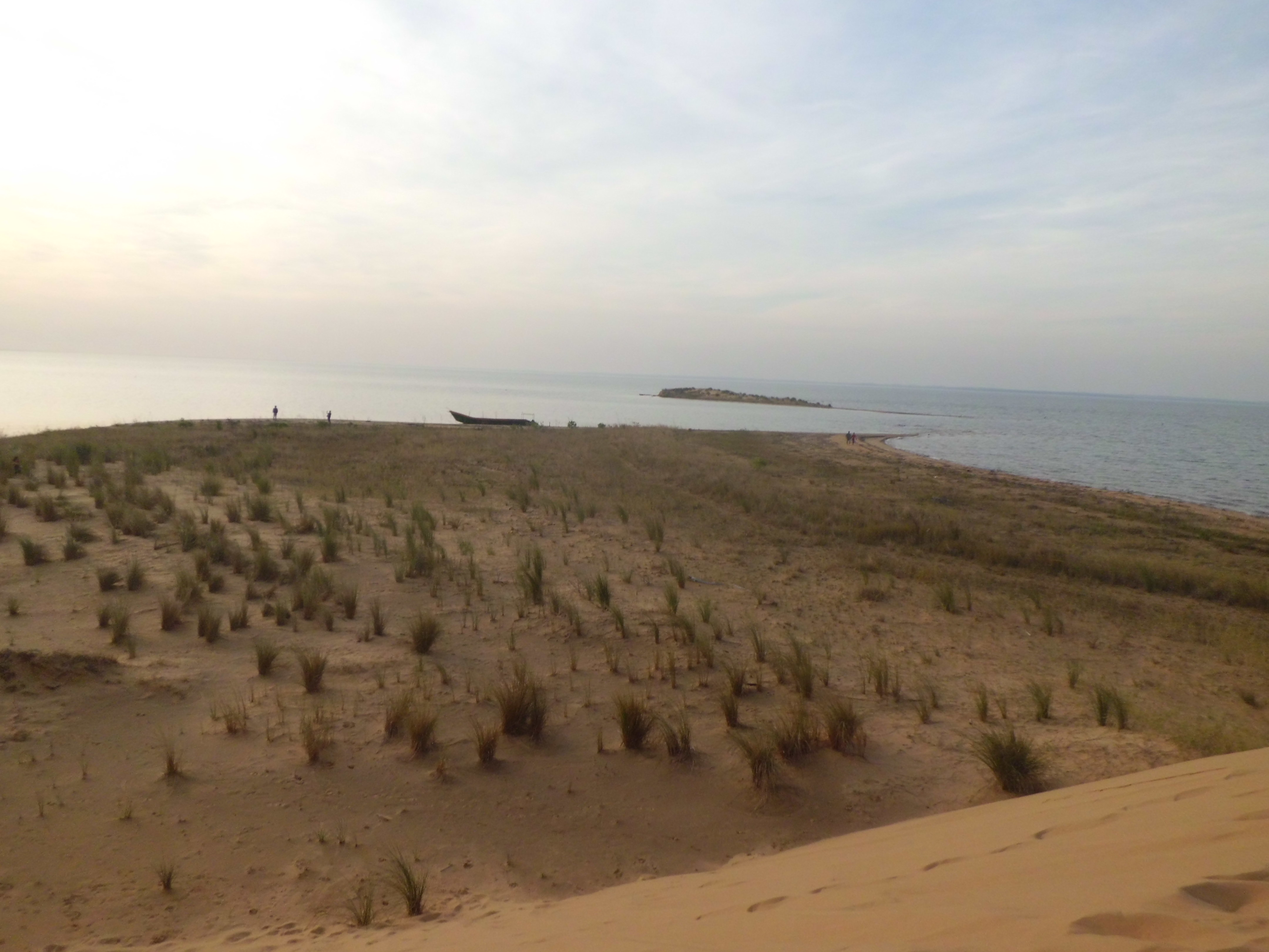 Dunes in San Cosme y Damian, Paraguay.